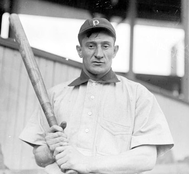 Half-length portrait of Honus Wagner (also known as John Peter or The Flying Dutchman), player for the Pittsburgh Pirates, National League baseball team, standing on field near grandstand at West Side Grounds, which was located between West Polk Street, South Wolcott Avenue (formerly Lincoln Street), West Taylor Street, and South Wood Street, in the Near West Side community area of Chicago, Illinois.